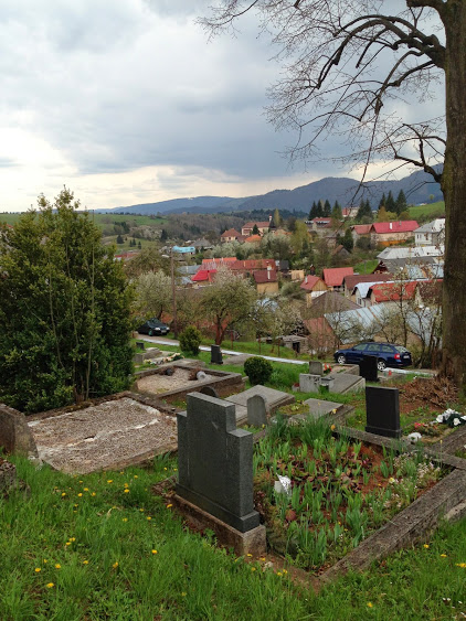 Horna Lehota